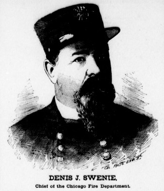 Denis J. Swenie